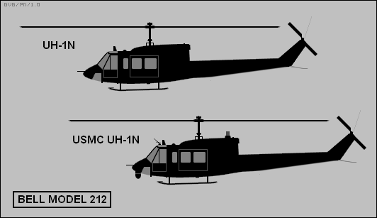 UH-1N Iroquois helicopter and US Marines' UH-1N model.